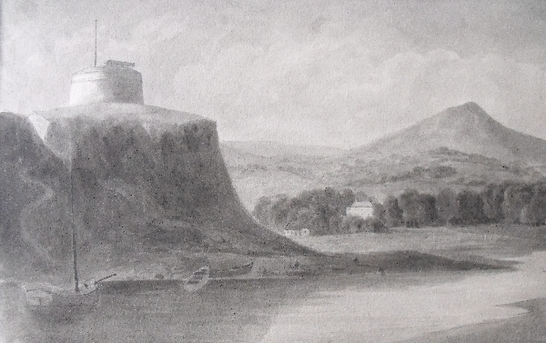 Drawing from "Ravenswell, Bray co. Dublin, The Seat of Isaac Weld Esq. - Sketches by Isaac Weld" 1817